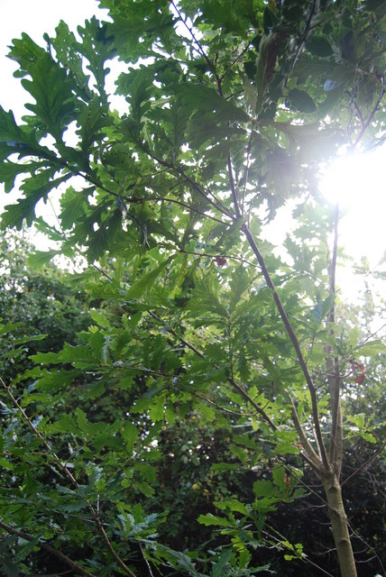 Little oak tree, Scotswood Community Garden, Newcastle upon Tyne As well as growing lots of veg and fruit the idea of the garden project is to green this area and plant lots of native trees. The little oak tree was settling in well and looked very happy in his own glade